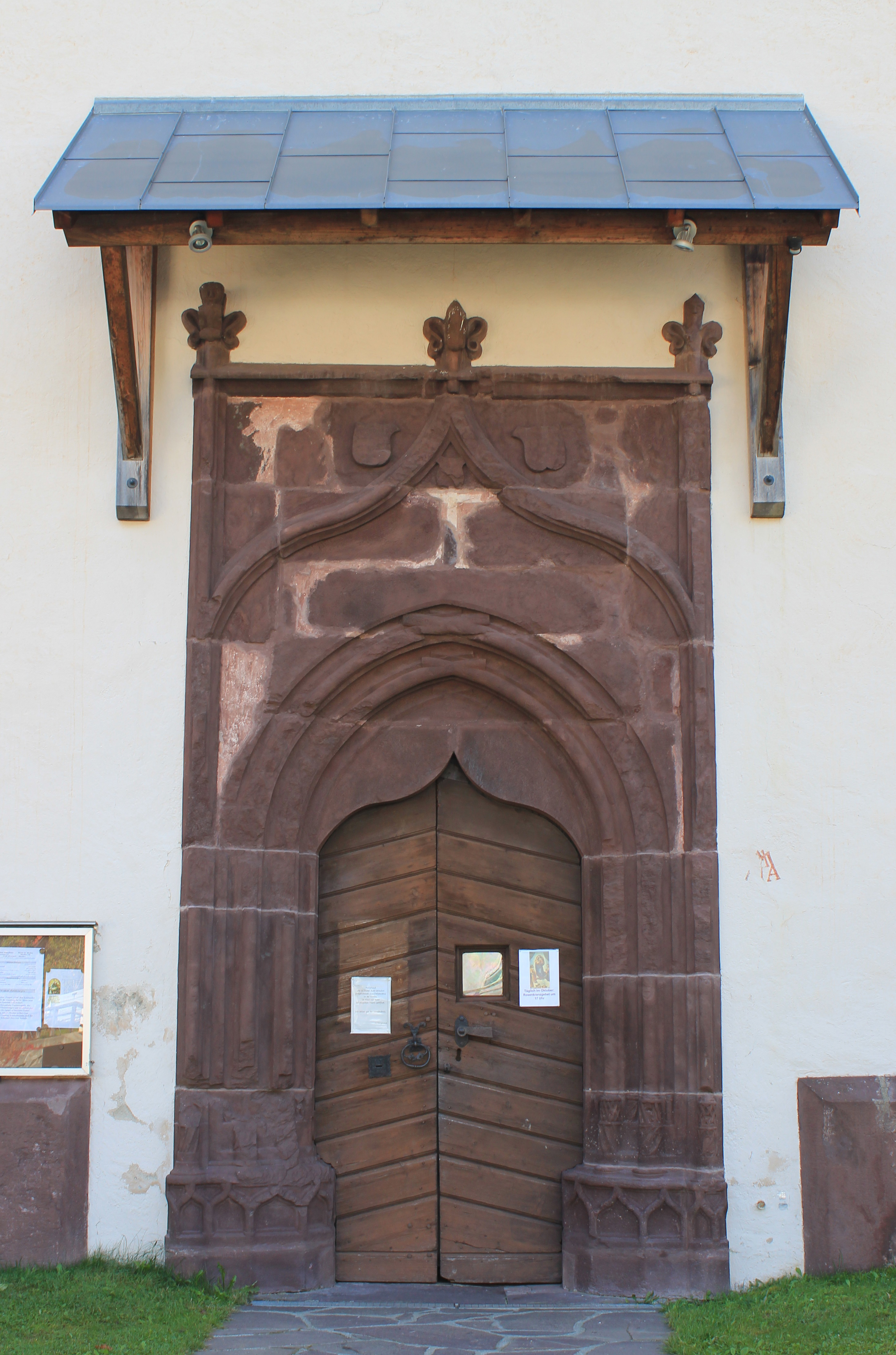 Church of Laas in the community of Kötschach-Mauthen